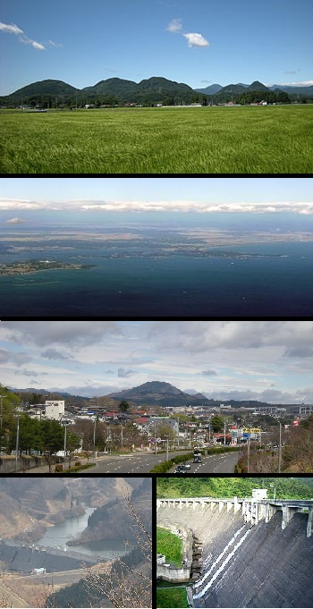 Taiwa montage